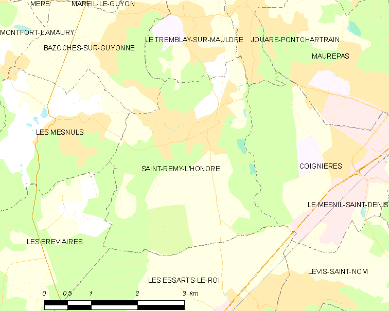 Map of French municipality Saint-Rémy-l'Honoré